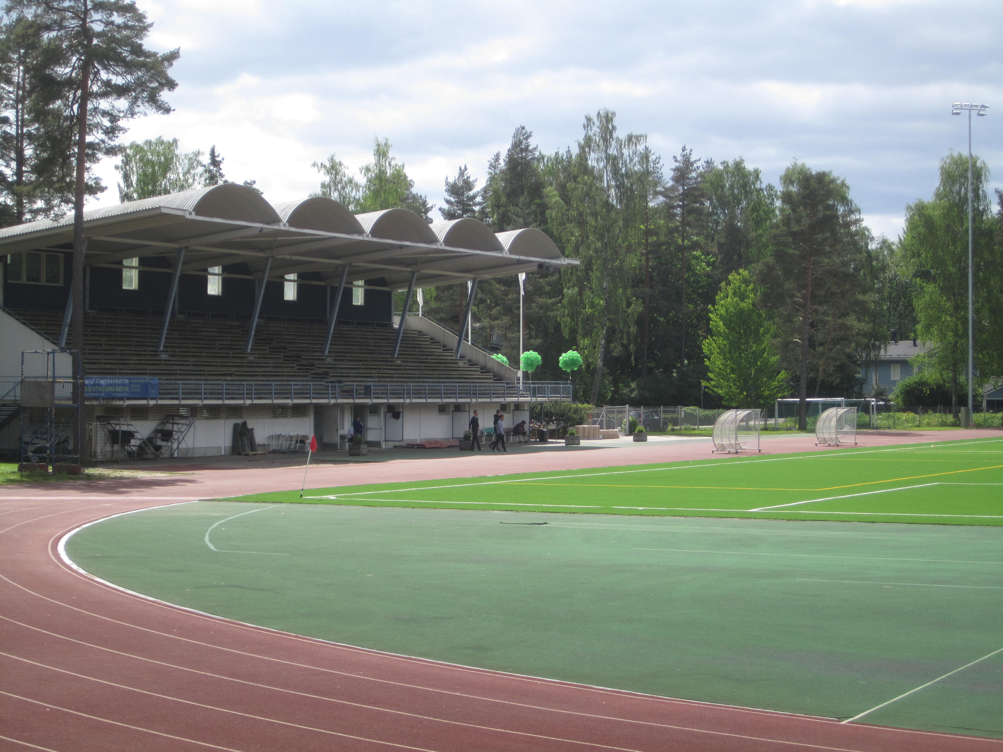 Kauniaisten keskuskenttä (stadium) in Kauniainen Finland.